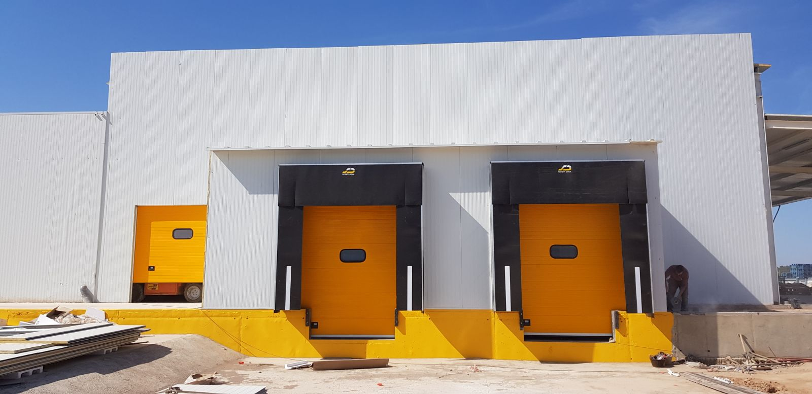 Sectional doors for industry